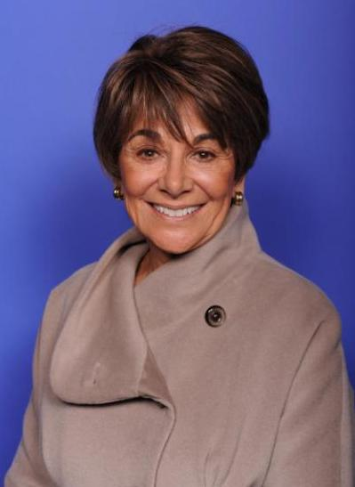 Anna Eshoo official photo, 2012 to present